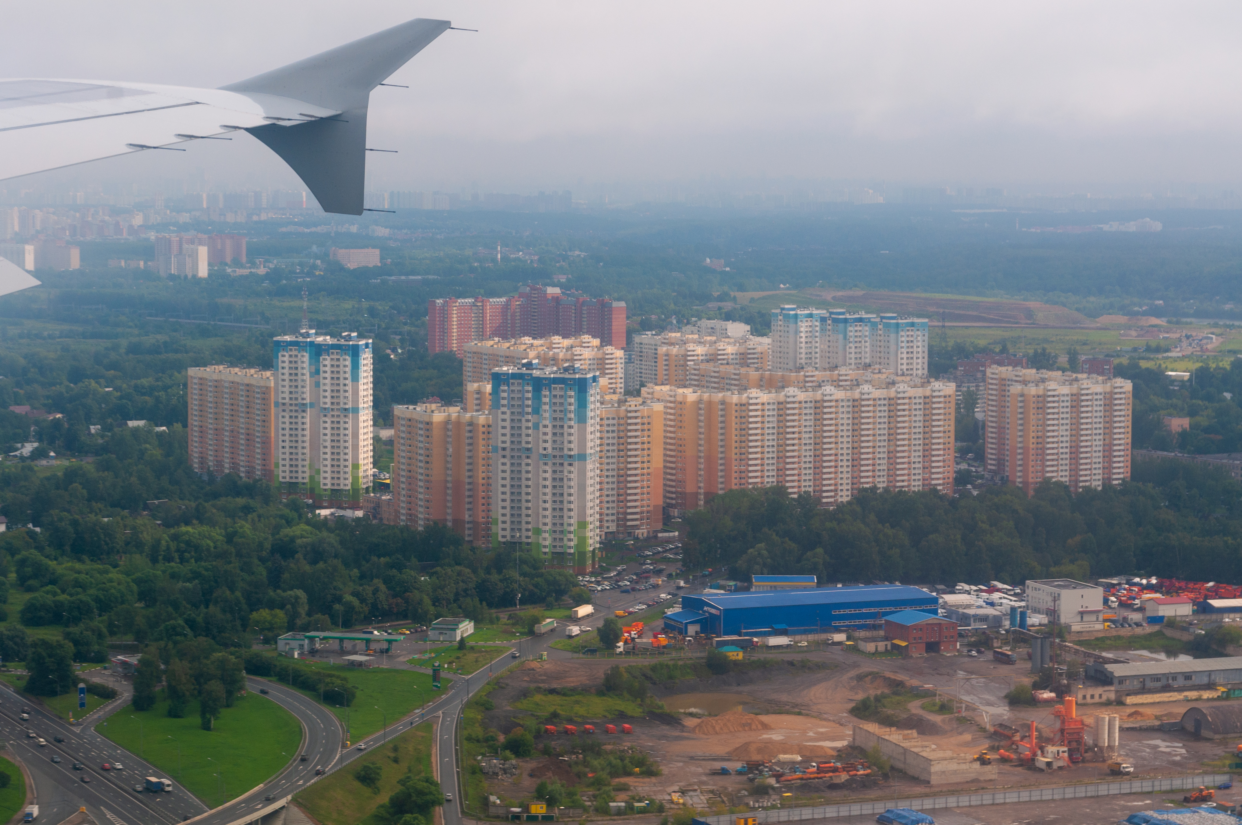 Border of the city of Moscow and the city of Khimki, some 3 km from the runway of Sheremetyevo airport. High-rise township for military servicemen (on Moscow city land).